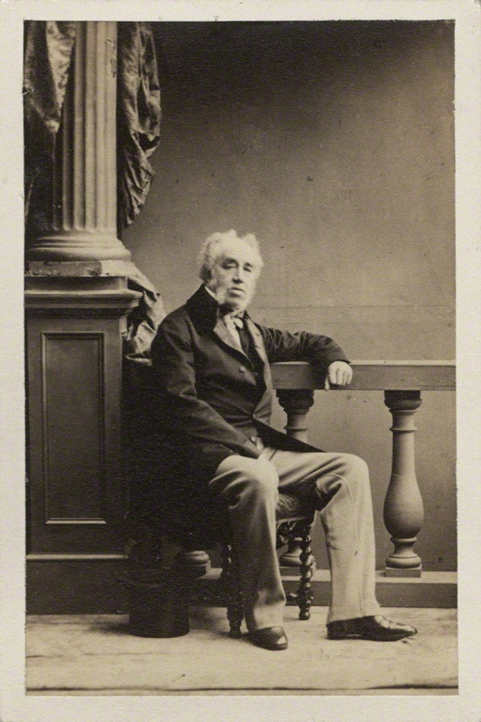 Photograph of Robert Jocelyn, 3rd Earl of Roden Camille Silvy.